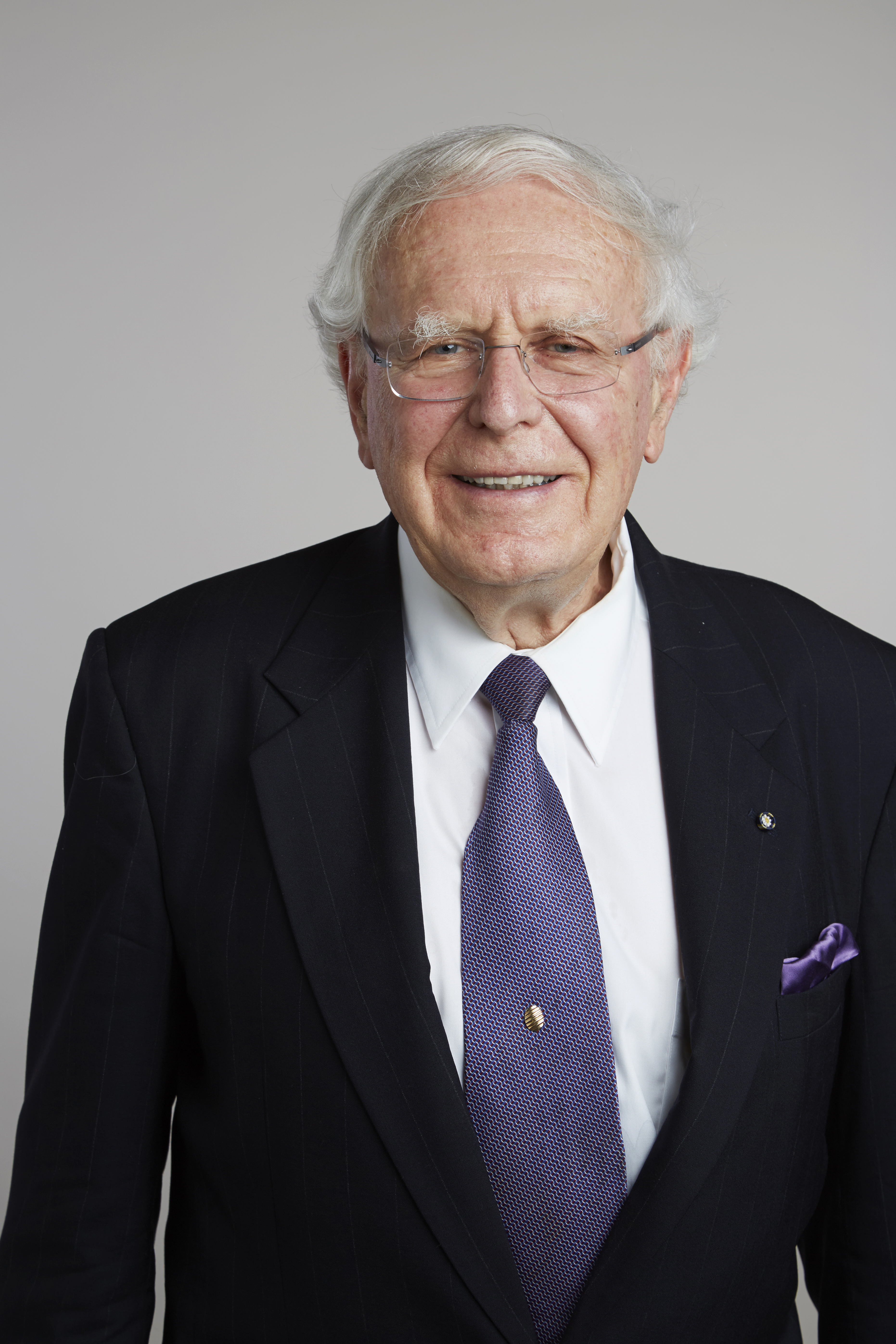 Born and educated in Prague (Ph.D. 1963), Zdeněk Pavel Bazant joined Northwestern University in 1969; W.P. Murphy Professor (1990-) and simultaneously McCormick Institute Professor (2002-); Center for Geomaterials Director (1981-87).